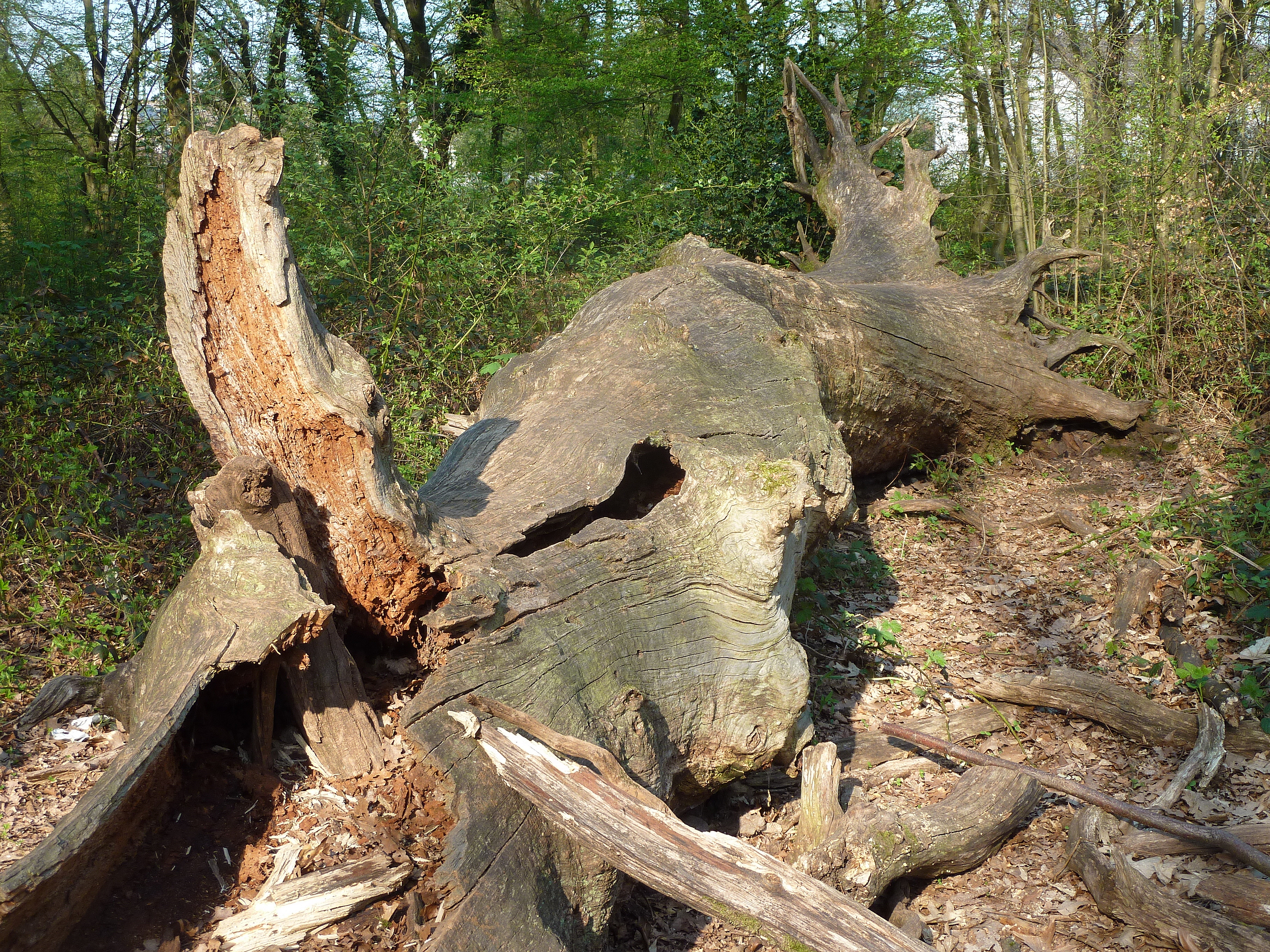 Frankfurt-am-Main borough of Schwanheim, Germany: Schwanheimer Alteichen is the official name of a group of about 30, on average five centuries old oak trees (quercus) in the cityʼs municipal forest, Frankfurter Stadtwald. Until the 19th century, every autumn local farmers would have their herds of domestic pigs feed from the acorns. The coarse woody debris of the Old Oaks of Schwanheim hosts a number of rare species of wild animals; among them the lucanus cervus beetle, the common noctule, and the tawny owl. The photo shows debris of an exceptionally large Schwanheim oak tree; picture taken in April 2017.